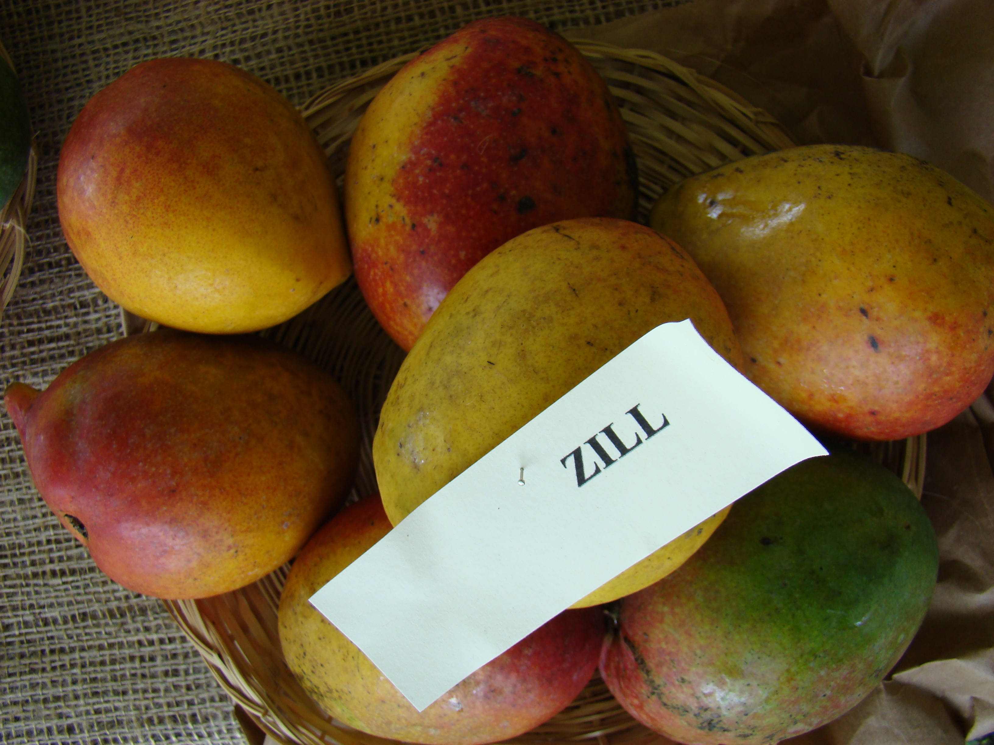 This is a photo of the display of Zill mango at the Redland Summer Fruit Festival, Fruit & Spice Park, Homestead, Florida.